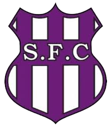 Logo of Sacachispas Fútbol Club, an association football club of Argentina.